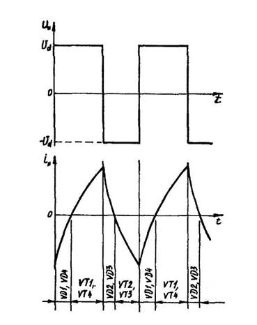 (рис.4) Часові діаграми процесів в схемі реверсивного перетворювача